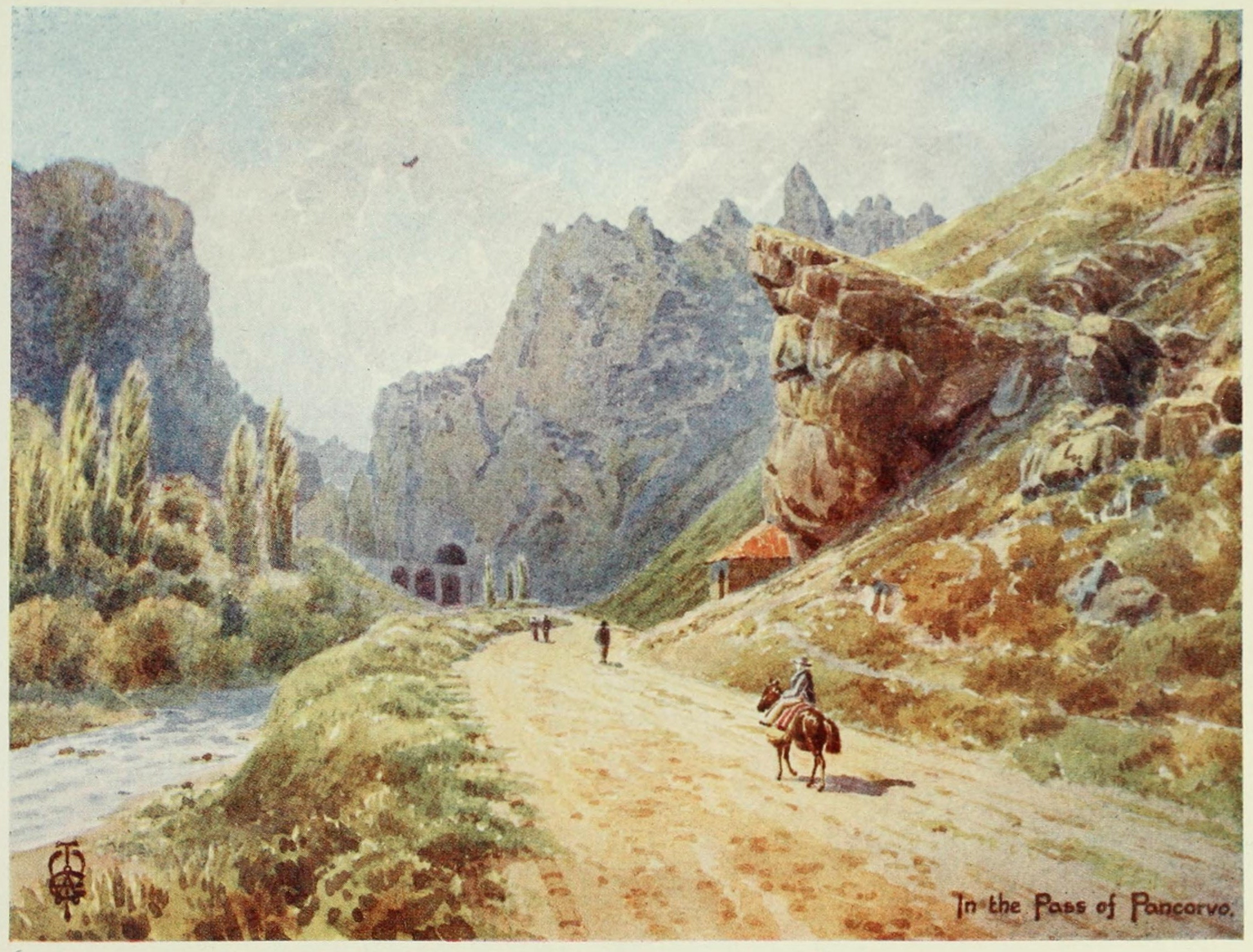 The gorge of Pancorvo.